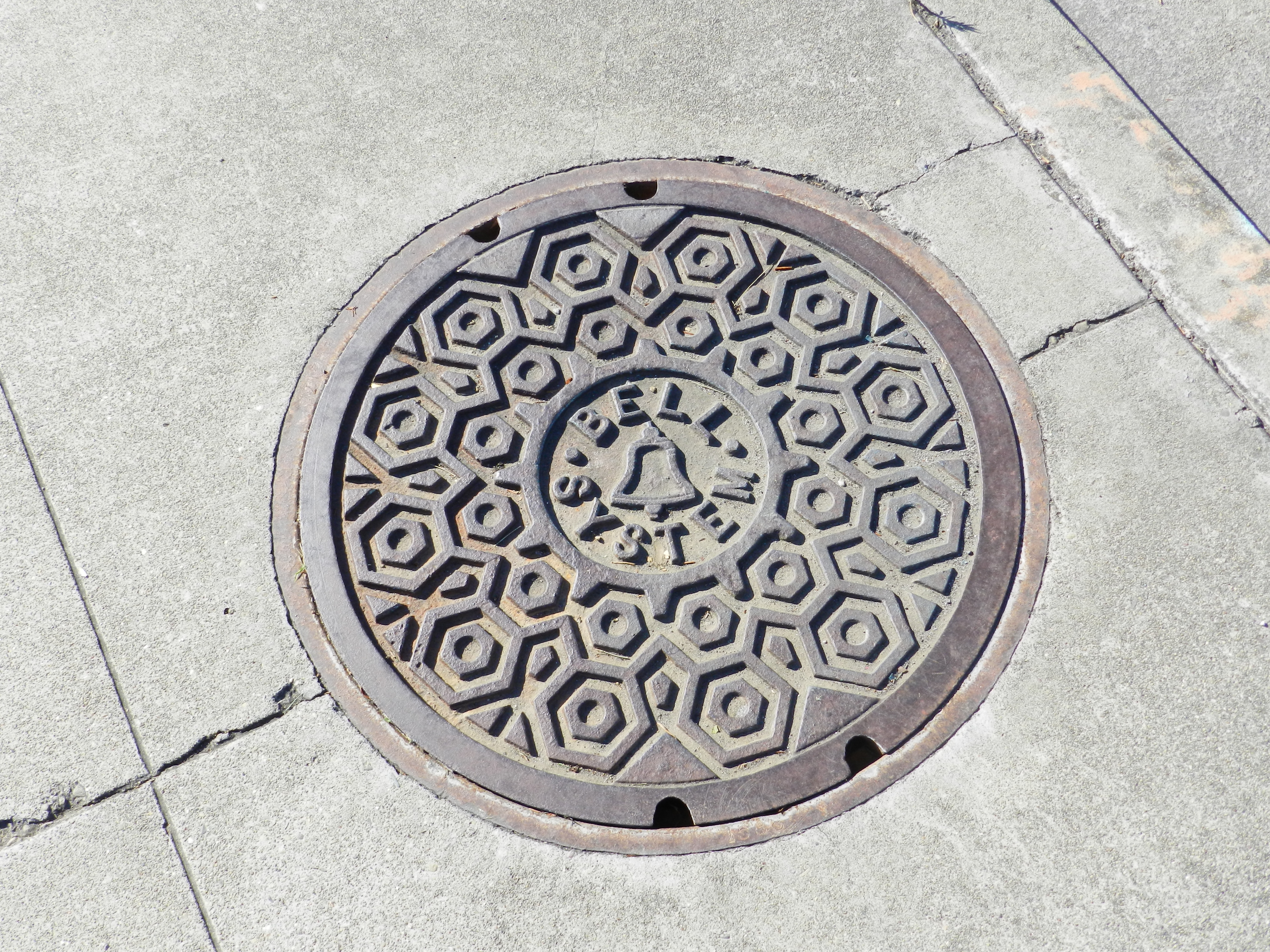 Bell Systems manhole cover, Hayward, California